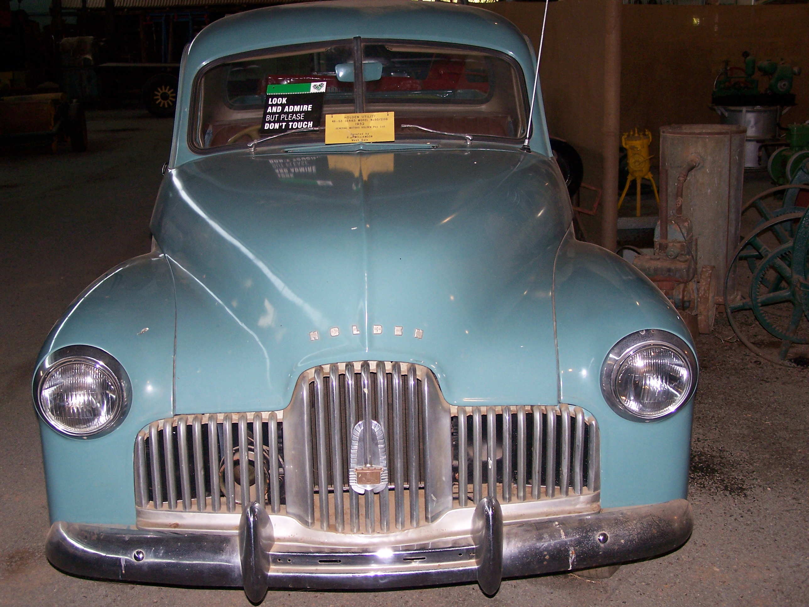 1948-1953 Holden 48-215, photographed at the Avondale Agricultural Research Station, Beverley, Western Australia, Australia.